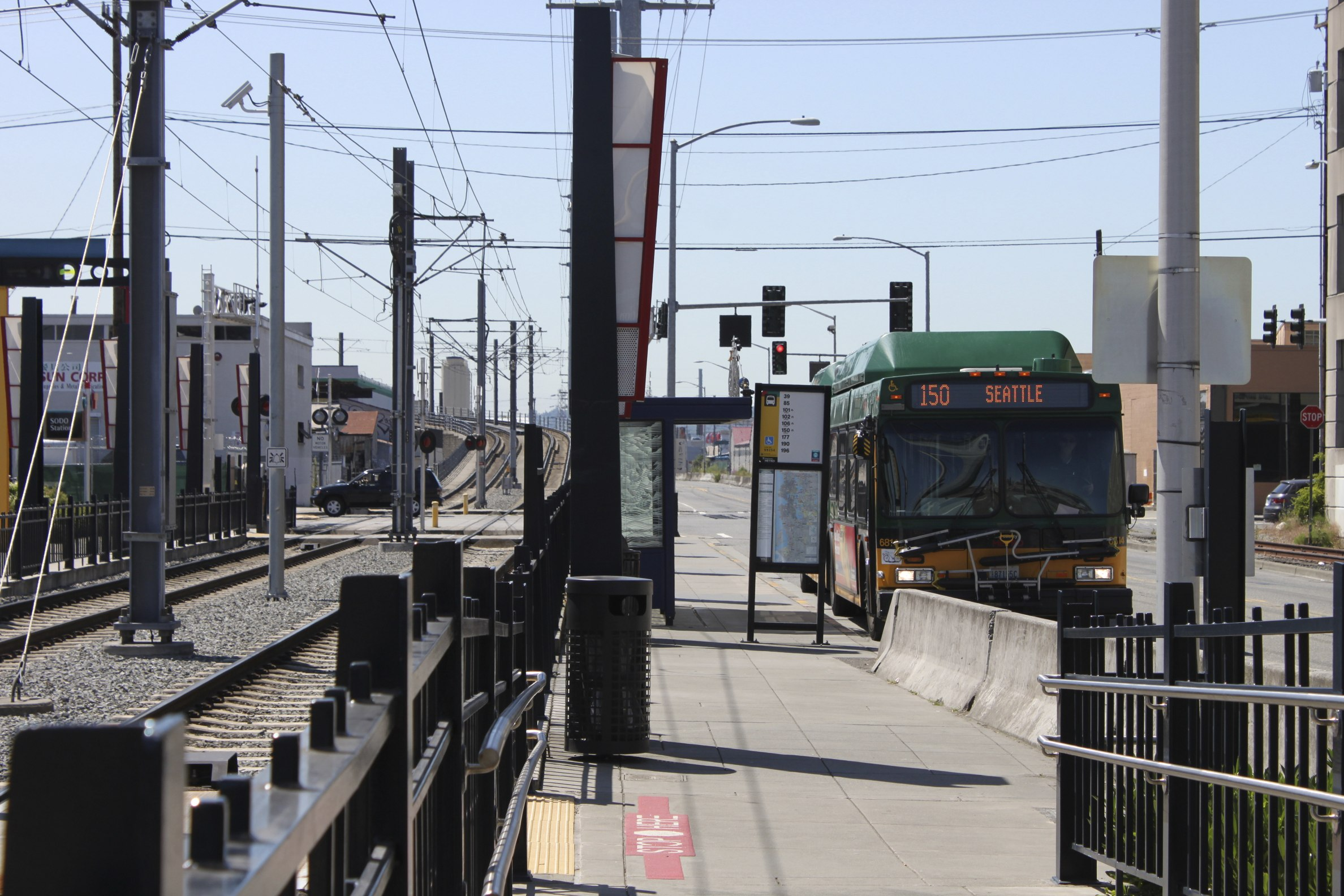 King County Metro 6814, a 2008 New Flyer DE60LF, running on Route 150 at a stop on the SODO Busway adjacent to the SODO Link station